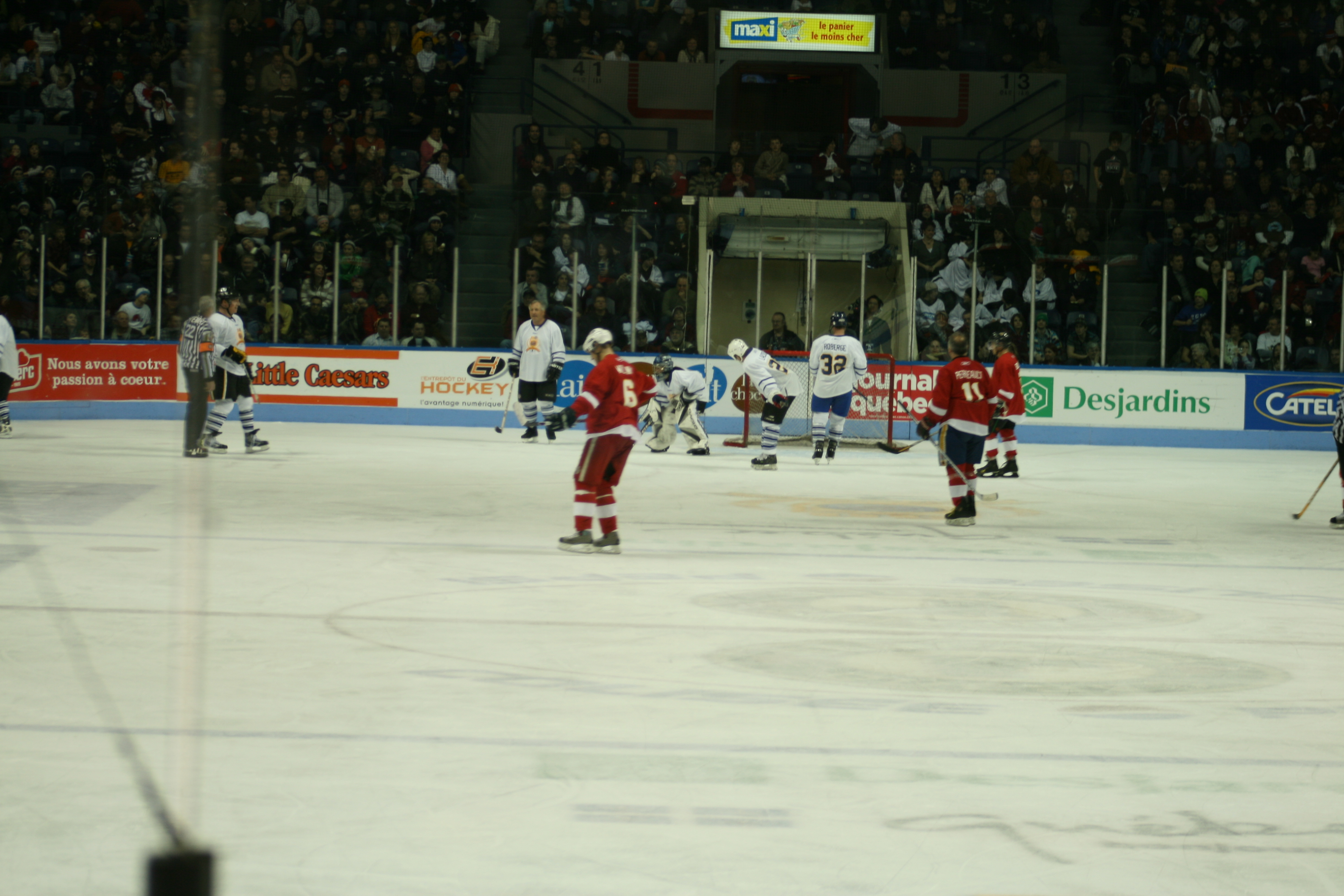 Before the faceoff at the Legends Game for the 50th edition of the Quebec International Pee-Wee Tournament. In this picture you can see in red, #6 Craig Wolanin, in white #32 Mario Roberge, in goal Manon Rheaume and without helmet in white Brad Park.